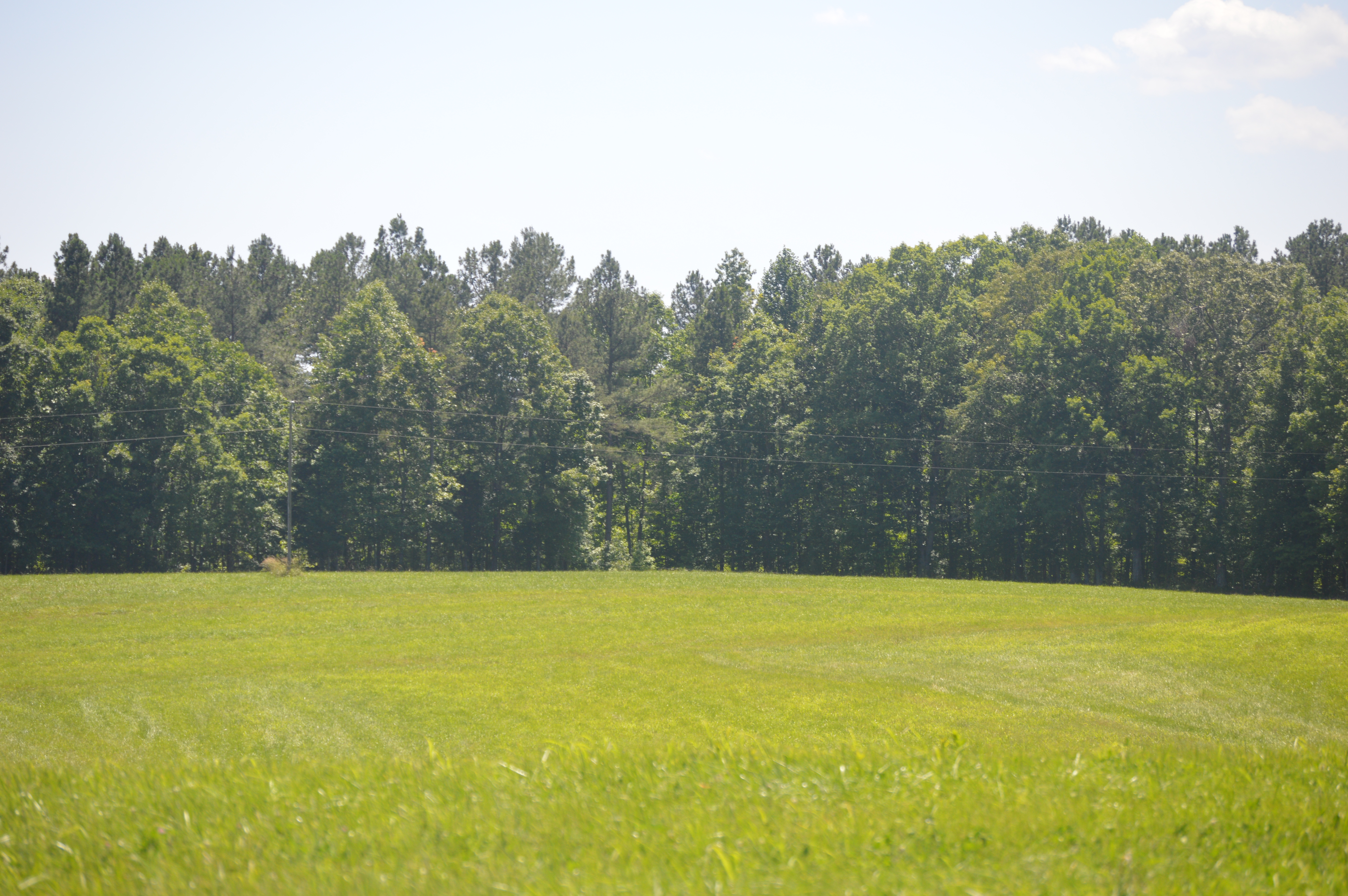 Fields and woods on the Pleasant Grove estate, seen looking southwest from Deer Run Road west of South Boston in Halifax County, Virginia, United States. The estate is listed on the National Register of Historic Places.